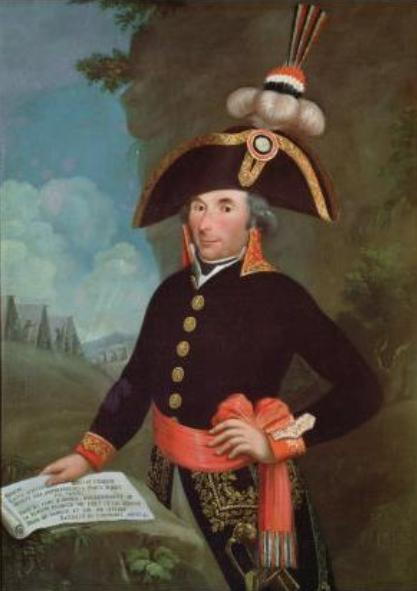 André Masséna (1758-1817), general of the french revolutionary armies and marshall of France